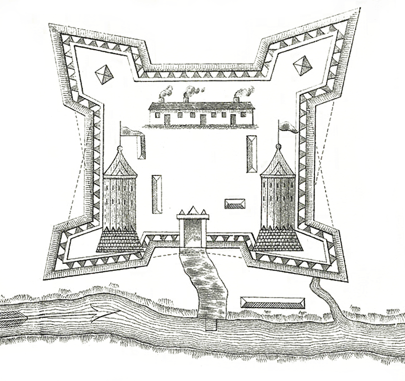 Fort Saint-Jean on Richelieu River in Canada during the 1750s